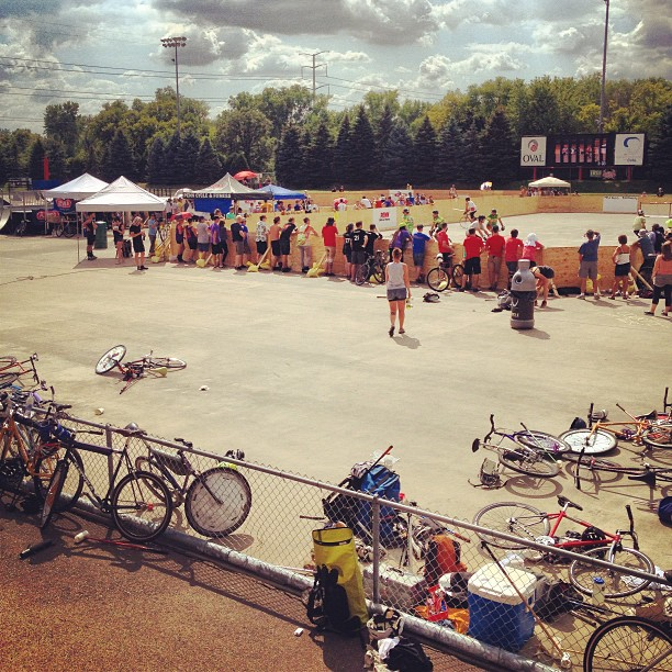 A shot of 2 of the 3 courts at the 2013 North American Bike Polo Championships.